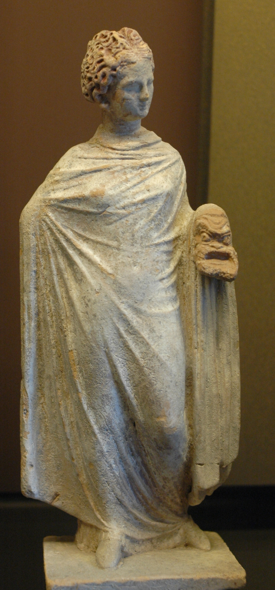 Woman holding a theatrical mask. Terracotta figurine made in Tanagra, ca. 325–300 BC.